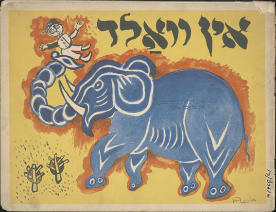 Description: A little boy, Itsi, dreamt that he went to the forest, where he met many different animals: a fox, a tiger, a lion, a wolf, a bear, a monkey etc. To read the entire book, clickhere. Illustrator: Ryback, Issachar, 1897-1935. Author: Kvitko, Leib, 1890-1952 Object Origin: Berlin Dimensions: 15 pages Date: 192-? Persistent URL: Repository: YIVO Institute for Jewish Research, 15 West 16th Street, New York, NY 10011 Call Number: 000003361 Rights Information: No known copyright restrictions; may be subject to third party rights. For more copyright information, click here. See more information about this image and others at CJH Digital Collections. Digital images created by the Gruss Lipper Digital Laboratory at the Center for Jewish History